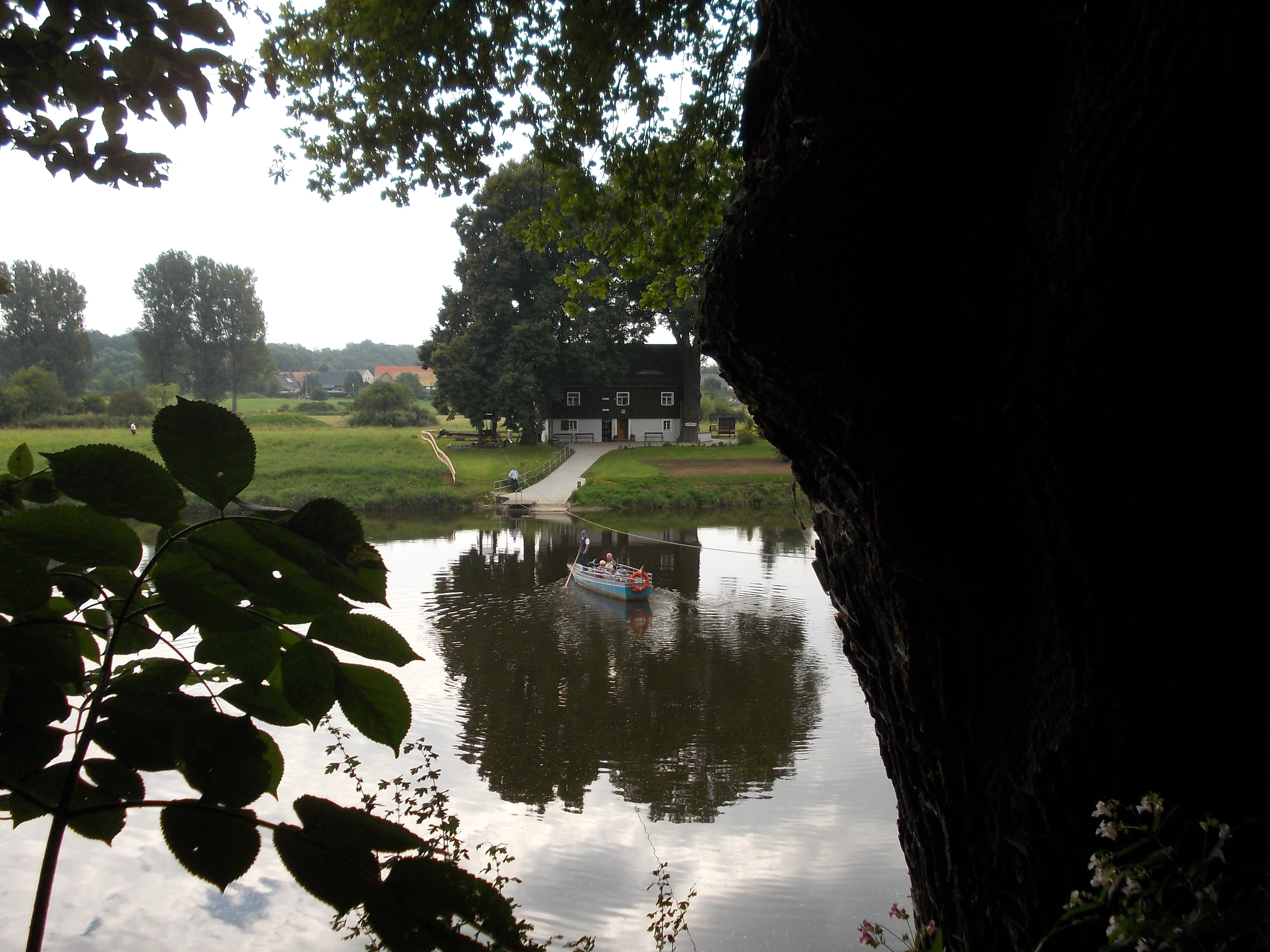 Höfgen ferry across the Mulde river (Grimma, Leipzig district, Saxony)